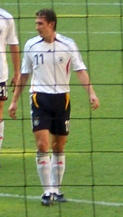 Miroslav Klose playing for Germany in WC 2006